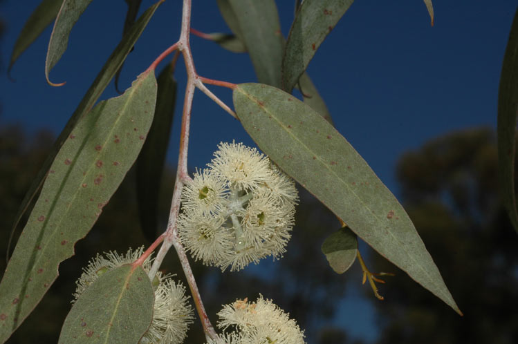 Flowers of Eucalyptus risdonii in the Australian National Botanic Gardens